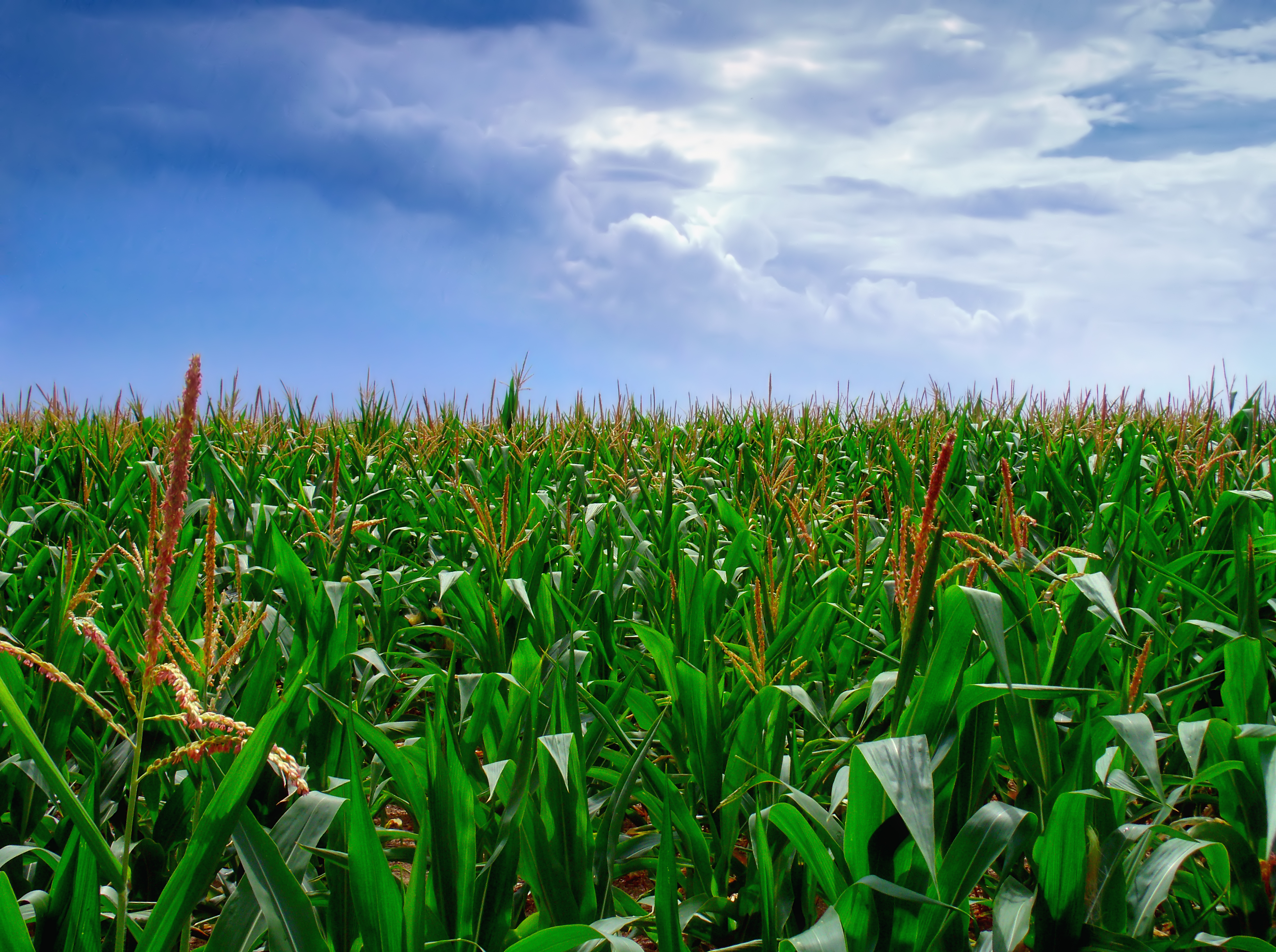 Cornfield and developing storm clouds, Upper Nazareth Township, Northampton County.